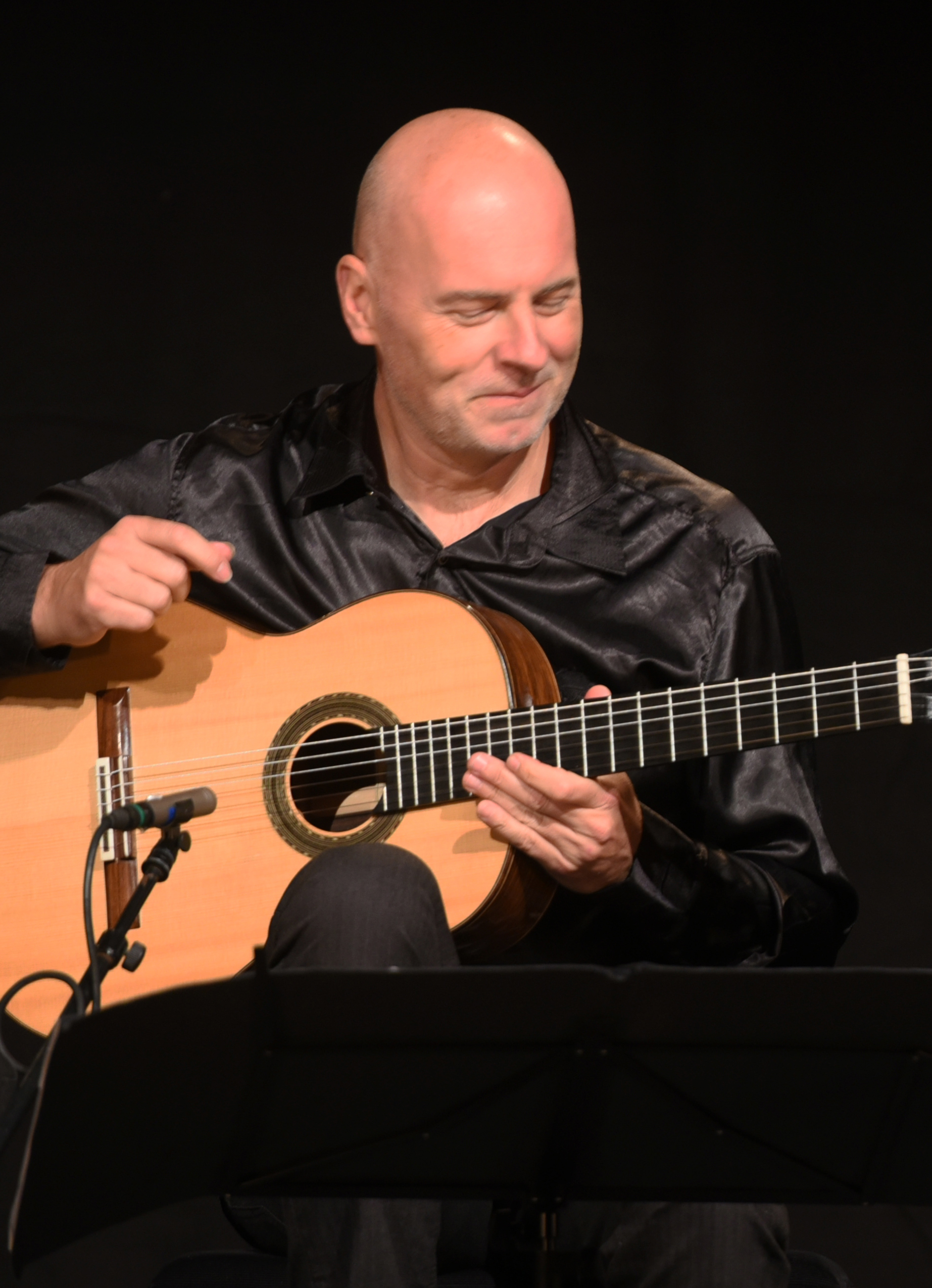 Thomas Fellow & Reenko playing at Hamburger Gitarrenfestival 2018